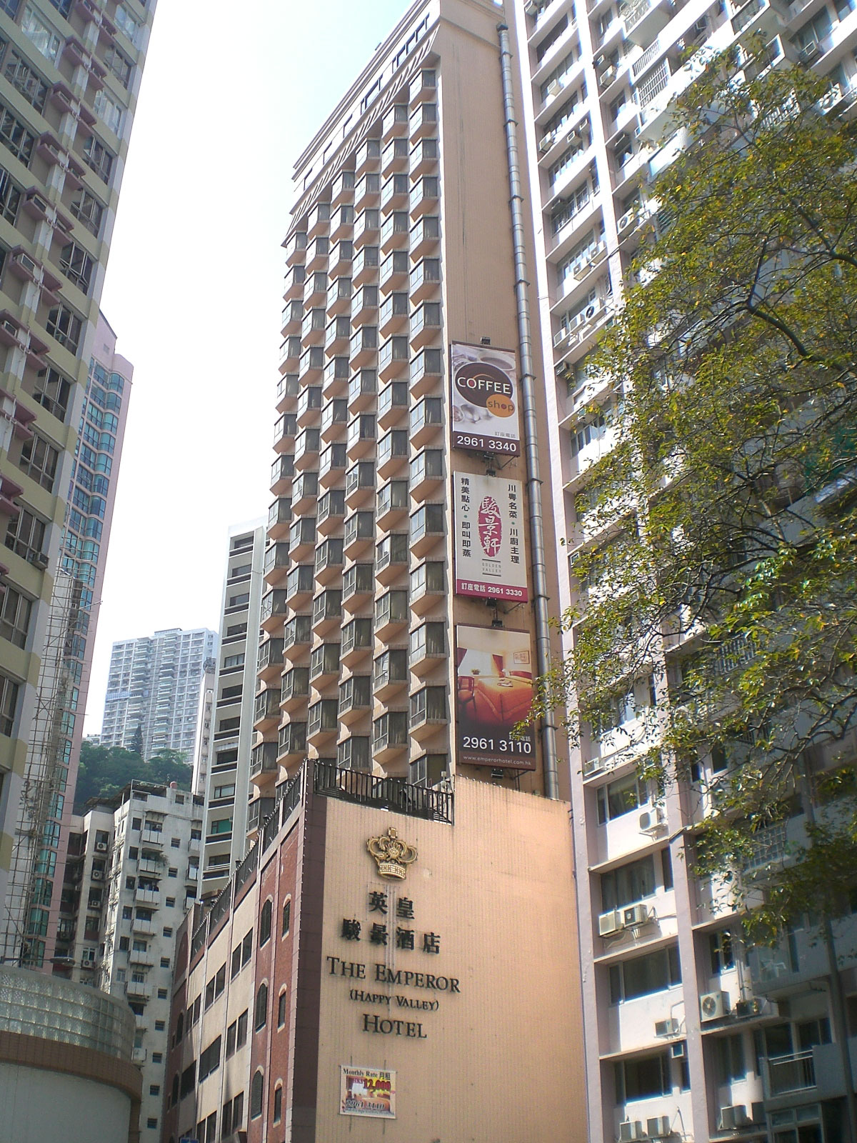 跑馬地zh:山光道望英皇駿景酒店